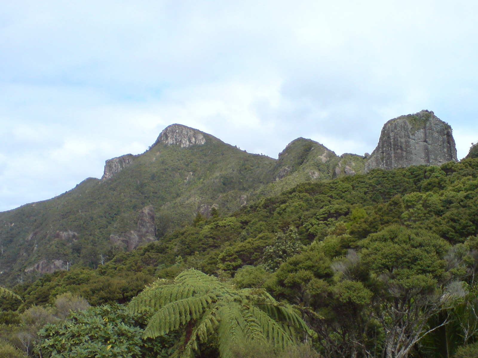 View of Mont Hobson on Great Barrier Island in New Zealand. Photo taken looking westwards from the road, Windy Canyon visible at the right.